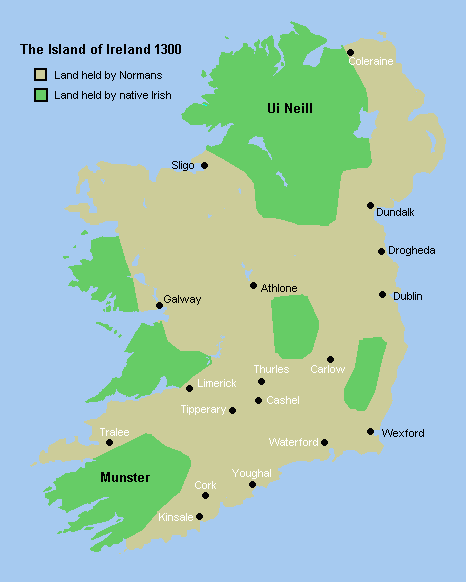 Historical map of Ireland from